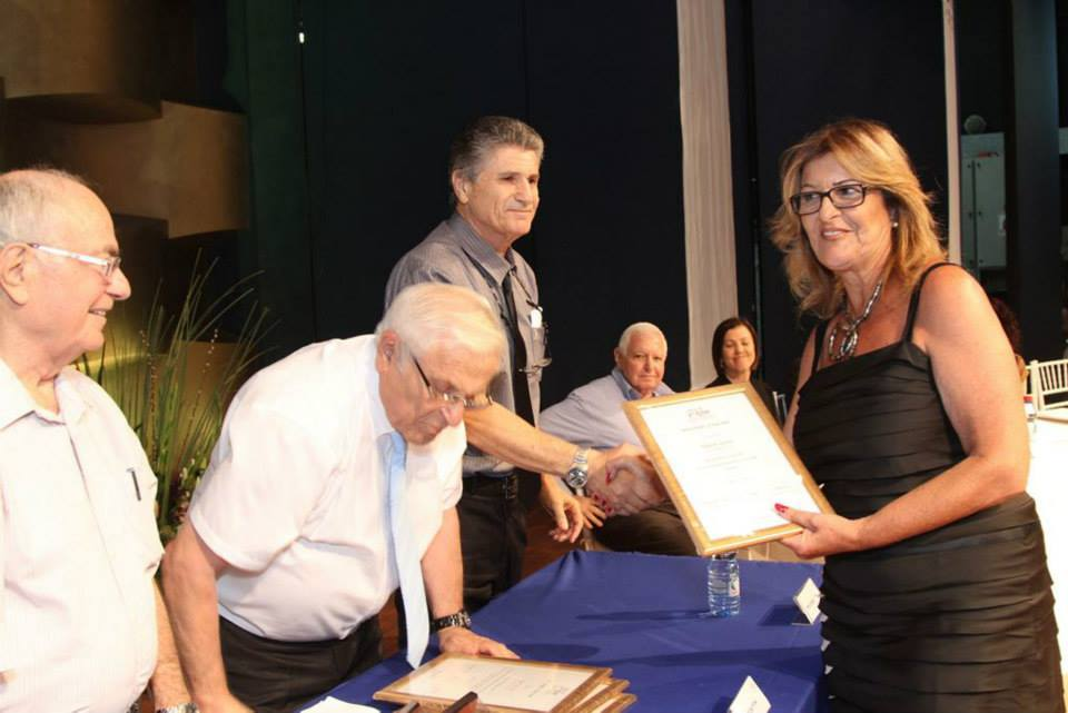 קבלת פרס אומ"ץ ע"י חדוה יחזקאלי